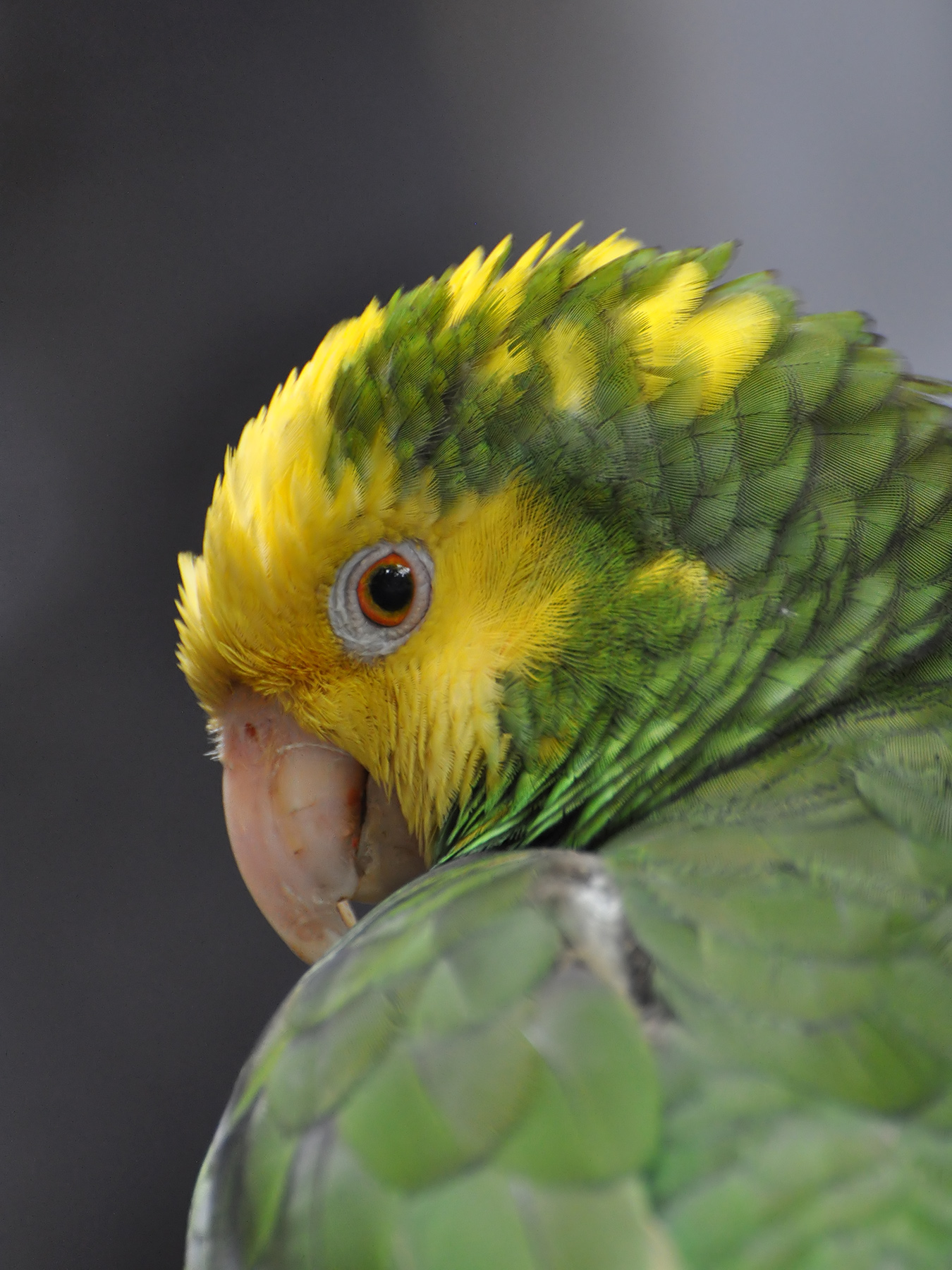 Portrait of Yellow-headed Amazon Parrot (Amazona oratrix) taken at the National Aquarium in Baltimore, USA.